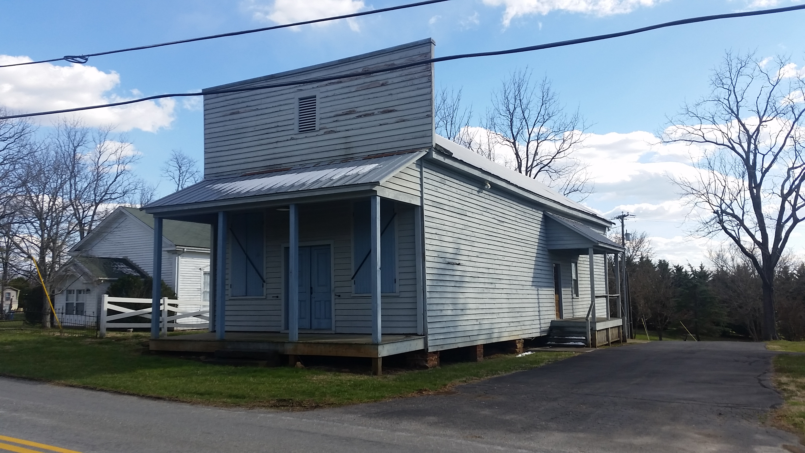 Taked in 2019